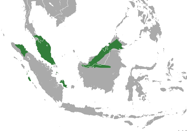 Pen-tailed Treeshrew (Ptilocercus lowii) range